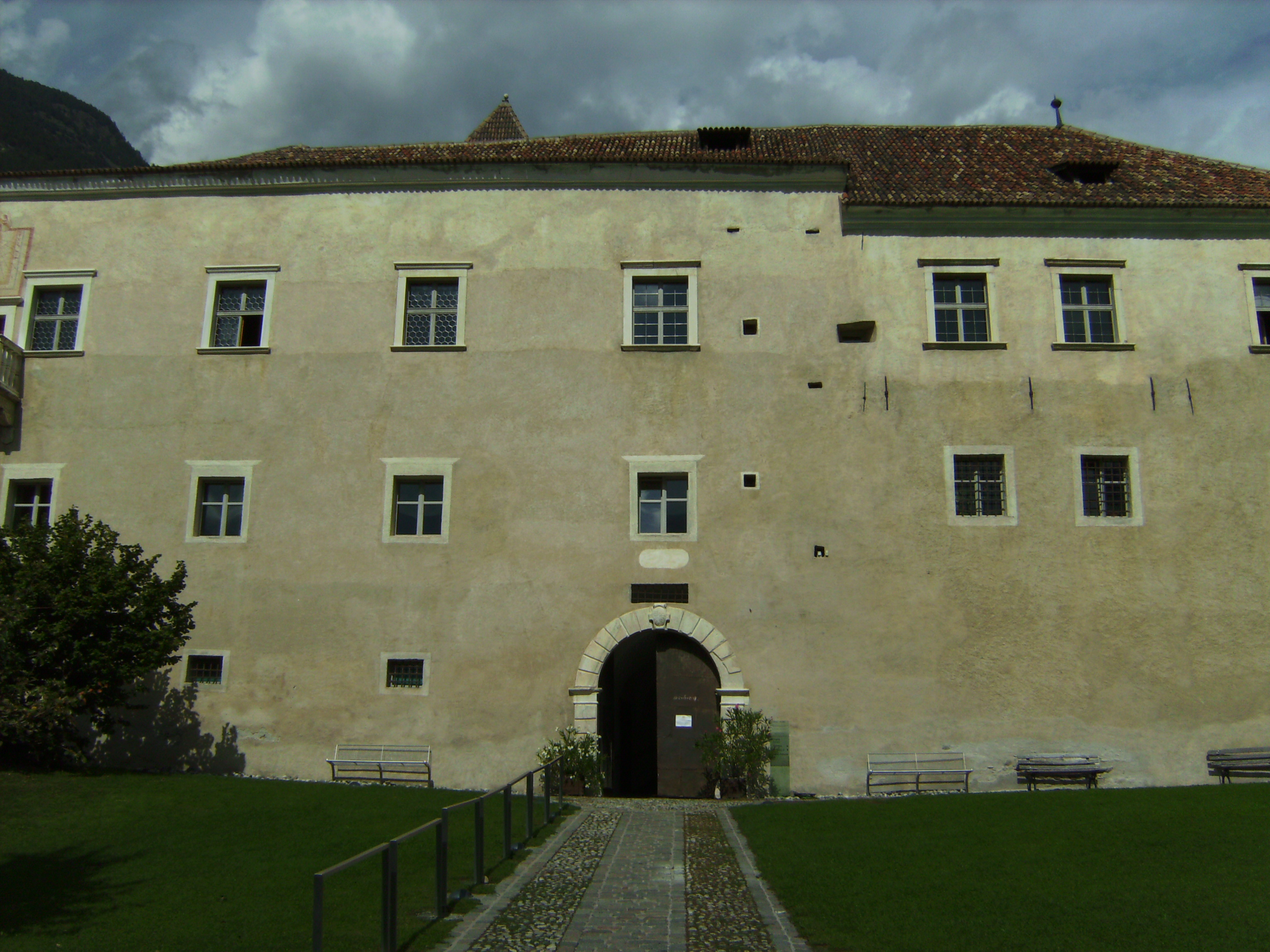 Goldrain Castle